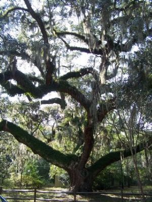 This 350- to 400-year-old tree at Stock Farm in Bluffton, South Carolina, is known as the "Secession Oak"; the location where Robert Rhett called for the South to withdraw from the Union in 1844